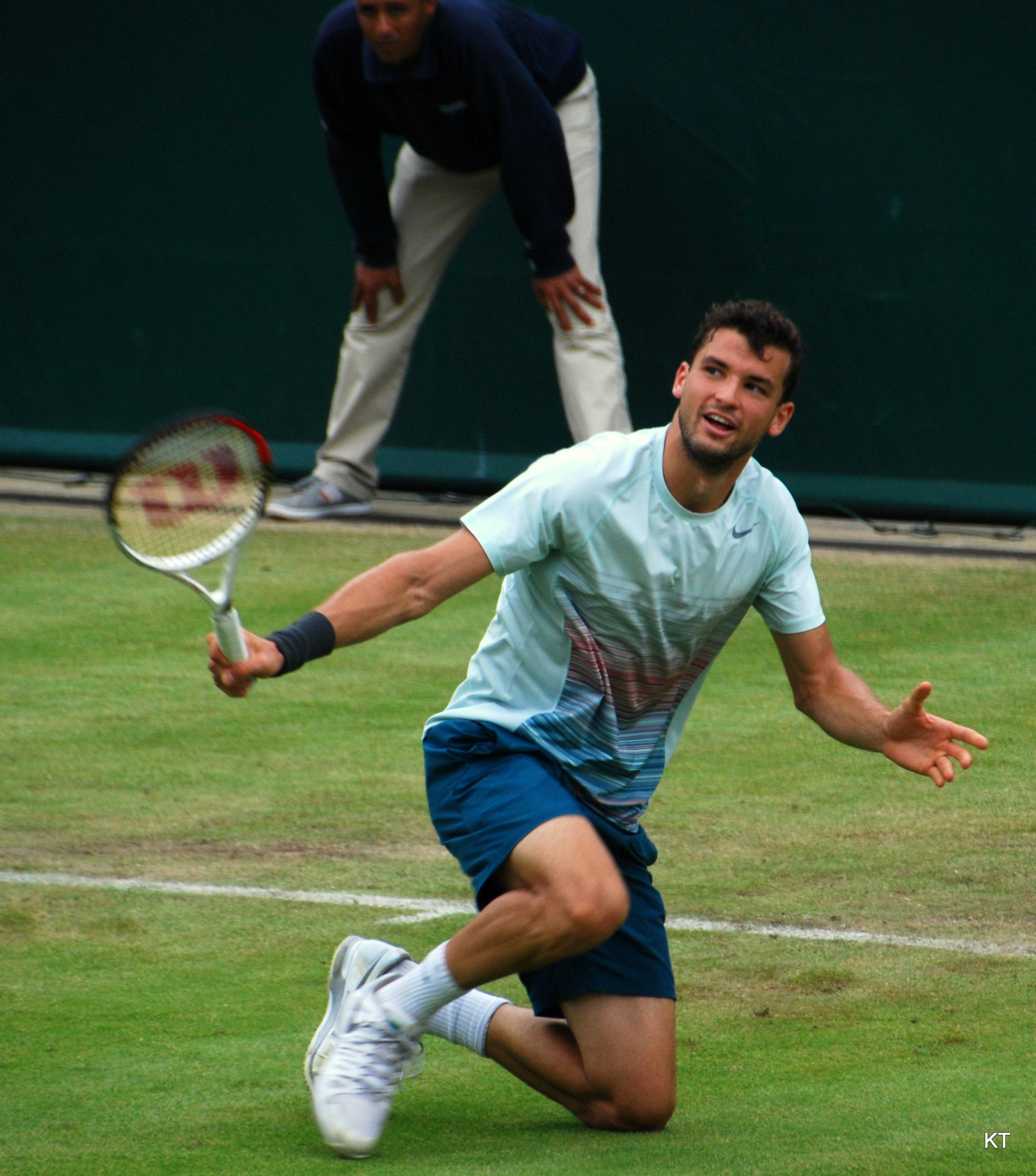 Dimitrov playing a backhand at the Boodles Exhibiton